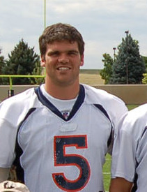 Marines from the Marine Cryptologic Support Battalion at Buckley Air Force Base in Colorado met with representatives from the Greatest Generations Foundation, World War II veterans and quarterbacks from the Denver Broncos Aug. 9 at a Denver Broncos training camp practice. Pictured are: back row, left to right are: Elizabeth Crony, Lucky McGinty, Sgt. Brian Geraghty, Preston Parsons, Jake Plummer, Ray Heap, Bradlee Van Pelt, Leonard McKinney, E.E. Mischler, and Jay Cutler. Kneeling, left to right: Timothy Davis, Staff Sgt. Richard Molnar, Sgt. Manuel Perez, Lance Cpl. Christopher Pickens, and Rigney Sackley. The Marines were invited to the practice by the Greatest Generations Foundation to meet with World War II Veterans. The Greatest Generations Foundation is a non-profit educational organization that raises money to fully fund trips for veterans to revisit the sites of their former battlefields.